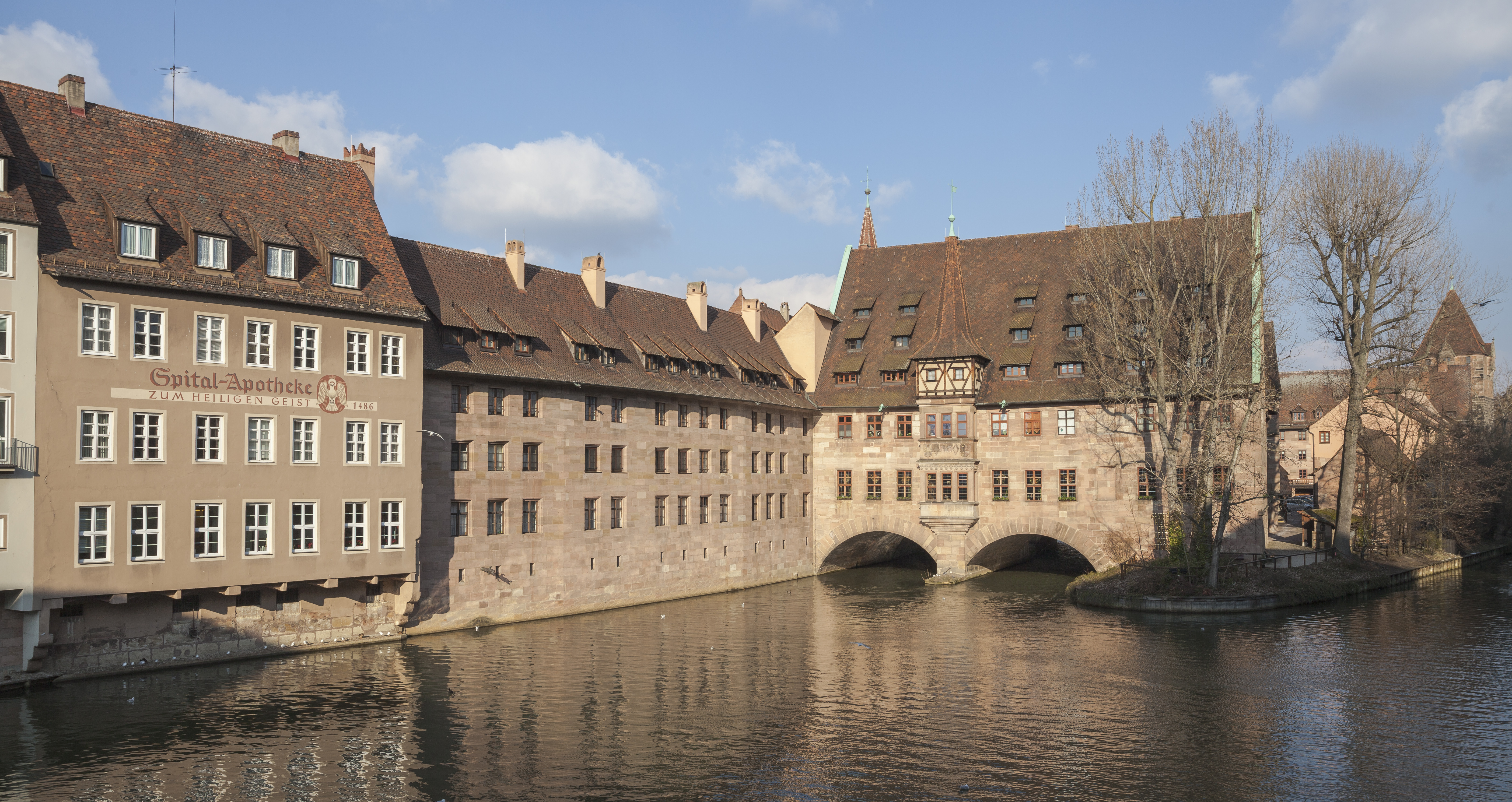 Hospital of the Holy Spirit, Nuremberg, Germany